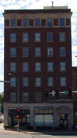 View from the north of Bennett Building in Council Bluffs, Iowa, on August 20, 2012. Listed on the National Register of Historic Places in Pottawattamie County, Iowa.